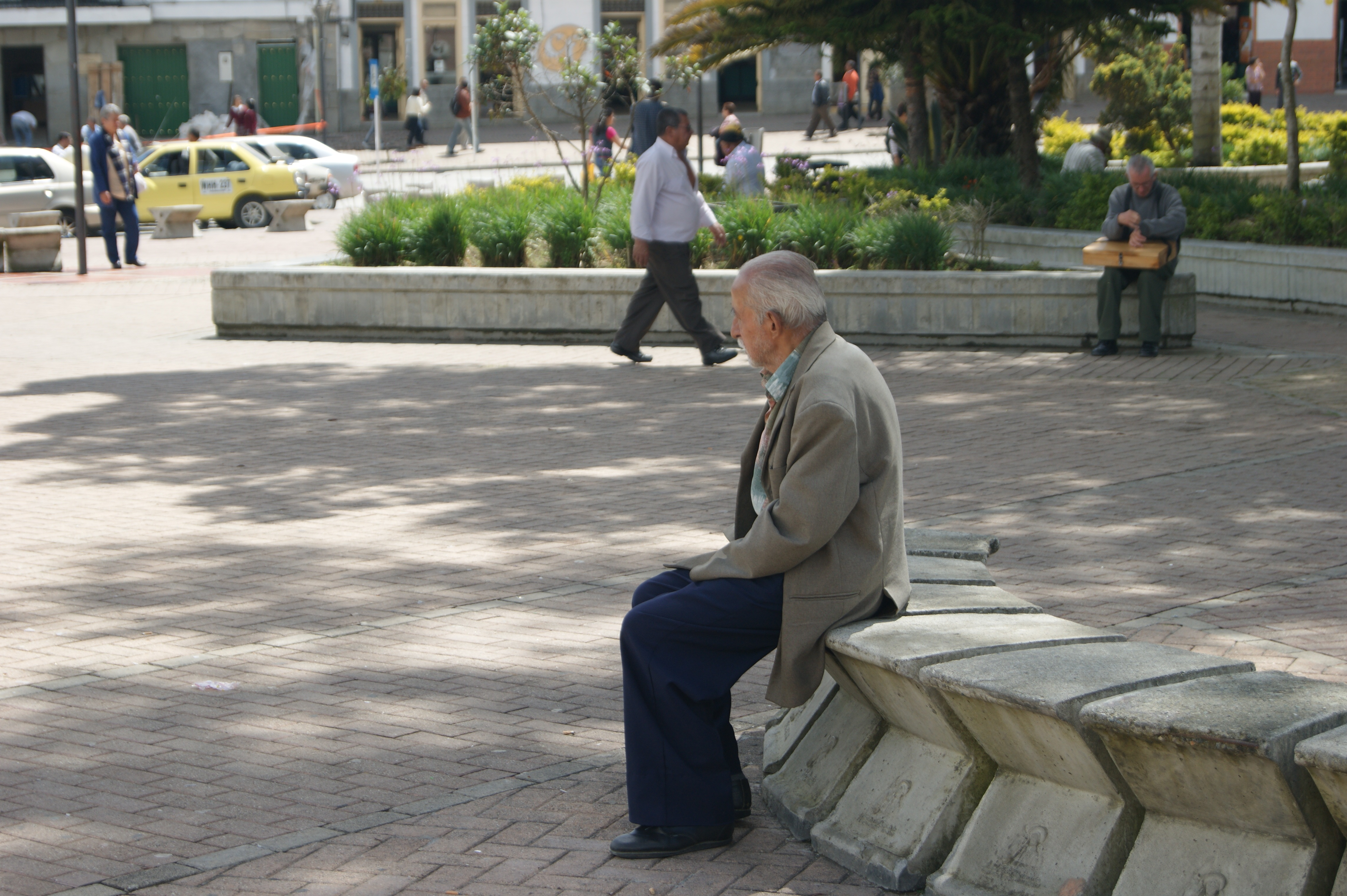 Old man is alone in the park